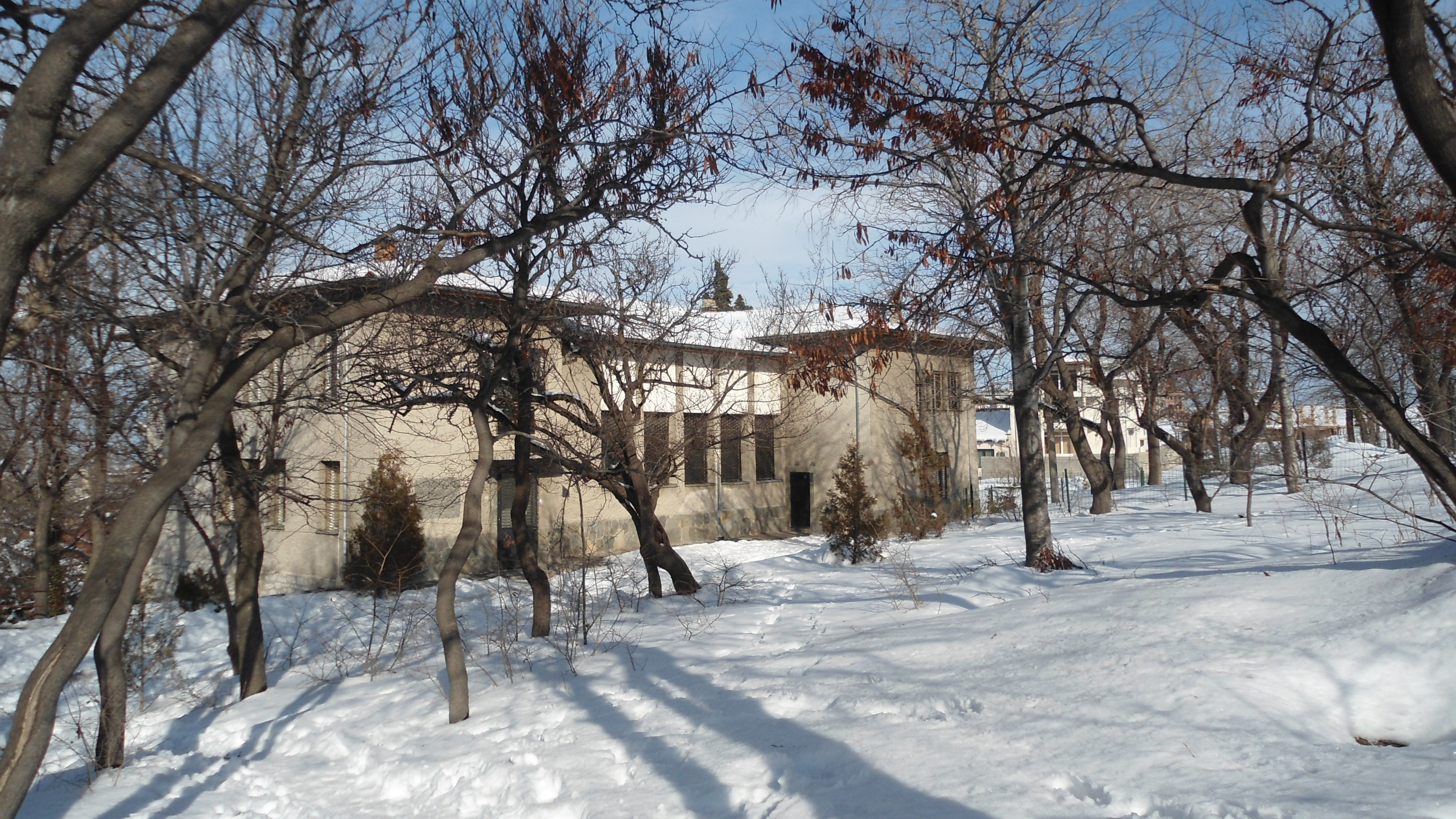 Paleontological Museum